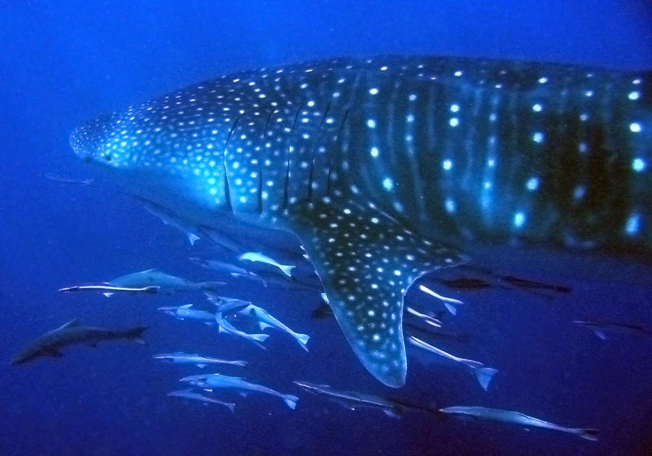 Whale Shark YES!!!!! This little BUEWTY was spotted at Exmouth (WA). Its a male, 6 meters long. And let us swim with it for 1 hour in 5 separate drops. It was absolutely fantastic!